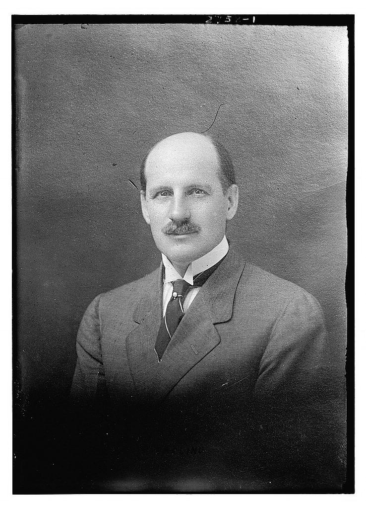 Joseph R. Darling Bain News Service,, publisher. Jos. R. Darling [no date recorded on caption card] 1 negative : glass ; 5 x 7 in. or smaller. Notes: Title from unverified data provided by the Bain News Service on the negatives or caption cards. Forms part of: George Grantham Bain Collection (Library of Congress). Format: Glass negatives. Repository: Library of Congress, Prints and Photographs Division, Washington, D.C. 20540 USA, General information about the Bain Collection is available at Persistent URL: Call Number: LC-B2- 2758-1